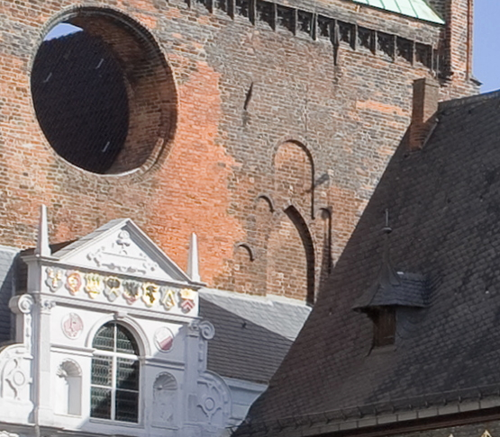 Romanesque and Renaissance details of Lübeck Town hall as seen from the southwest at the Markt (Market)